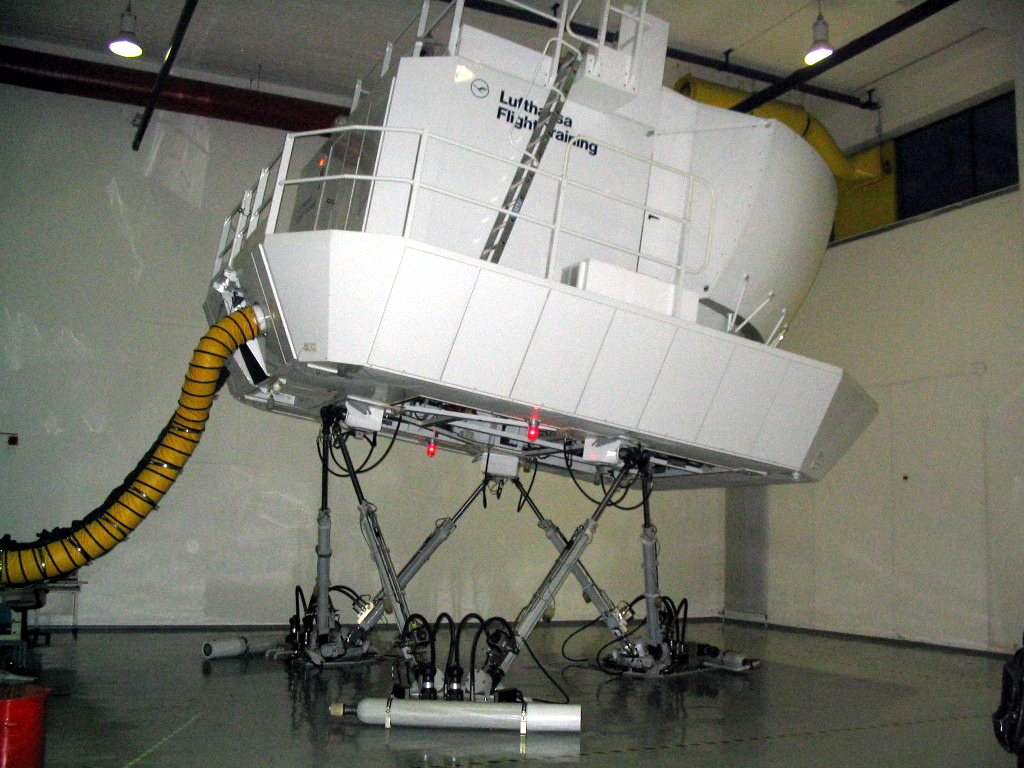 Lufthansa flight simulator on 6-axis platform